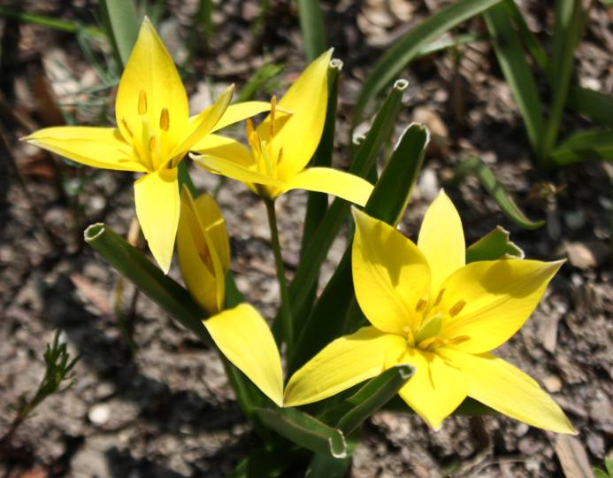 Tulipa tarda, Brno, CR